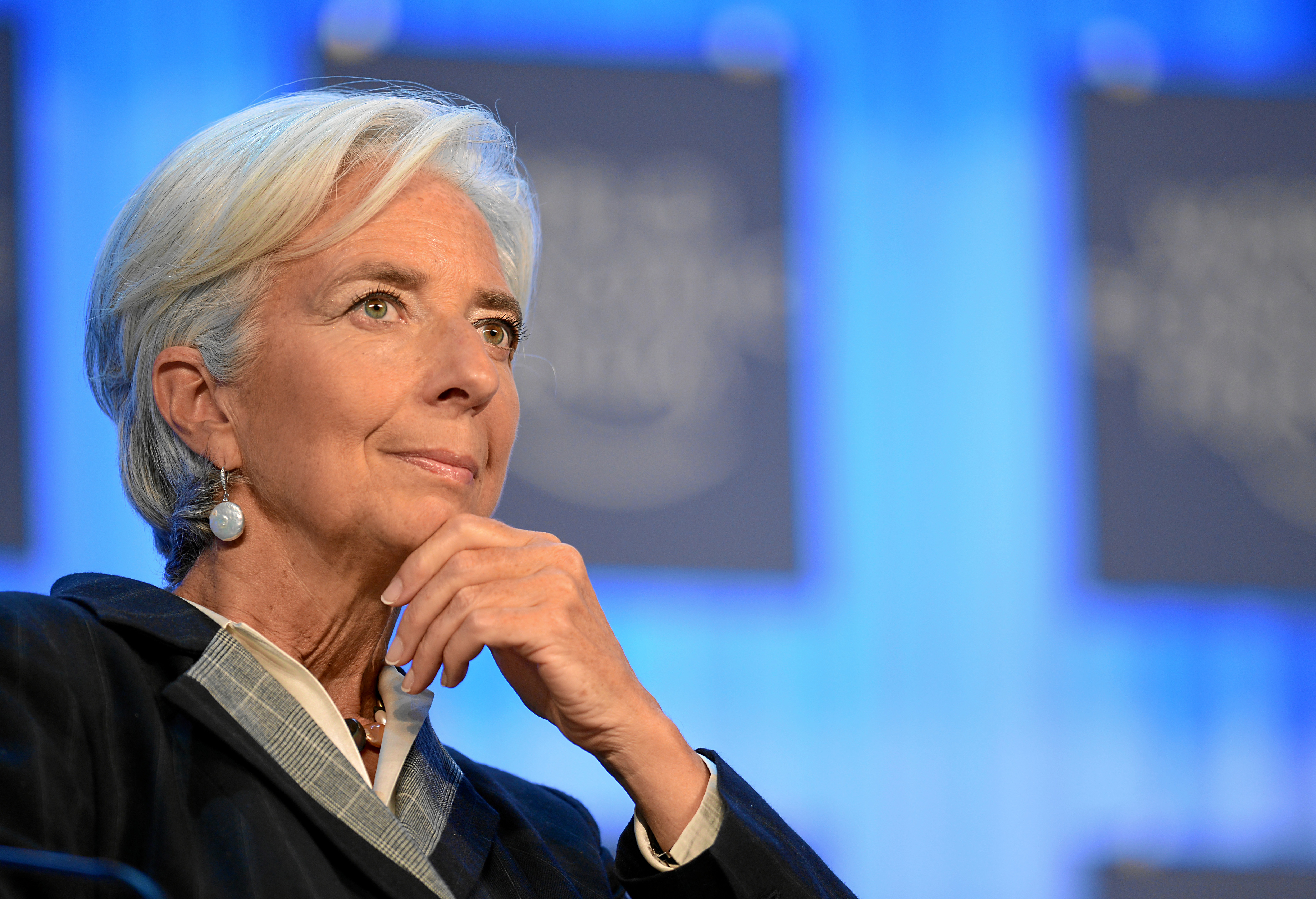 DAVOS/SWITZERLAND, 25JAN13 - Christine Lagarde, Managing Director, International Monetary Fund (IMF), Washington DC; World Economic Forum Foundation Board Member reflects during the session 'Women in Economic Decision-making' at the Annual Meeting 2013 of the World Economic Forum in Davos, Switzerland, January 25, 2013. . . Copyright by World Economic Forum. . Michael Wuertenberg